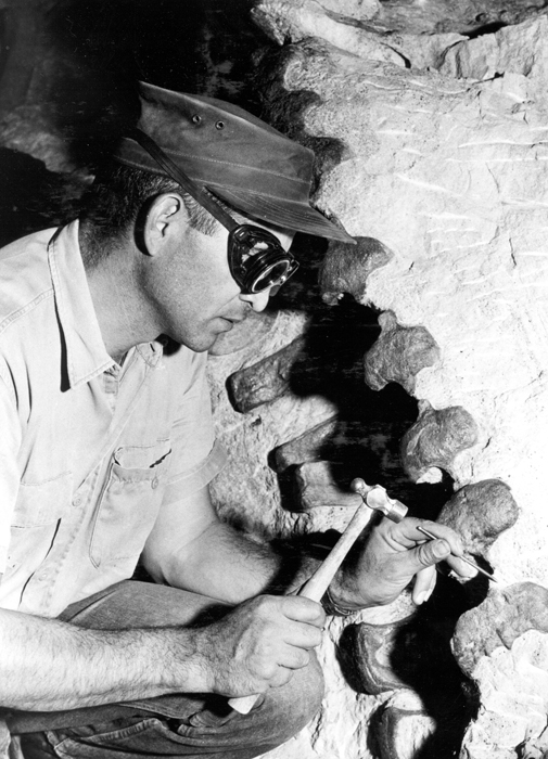 Paleontologist carefully chips rock matrix from a column of dinosaur vertebrae. These bones will be left in place for the visitor to see them just as they were deposited. Dinosaur National Monument. Uintah County, Utah. n.d.